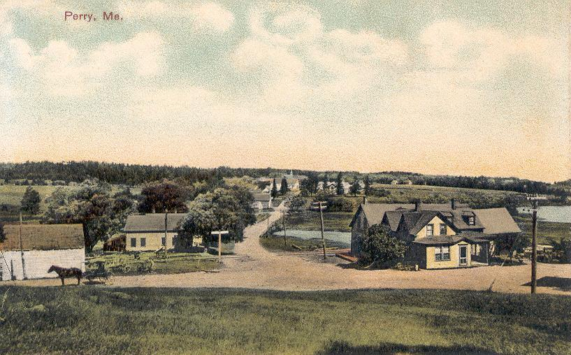 General View of Perry, ME; from a c. 1910 postcard.